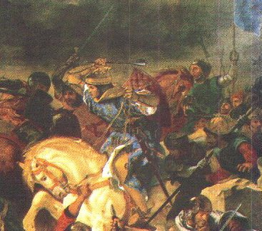 Louis IX of France at the Battle of Taillebourg